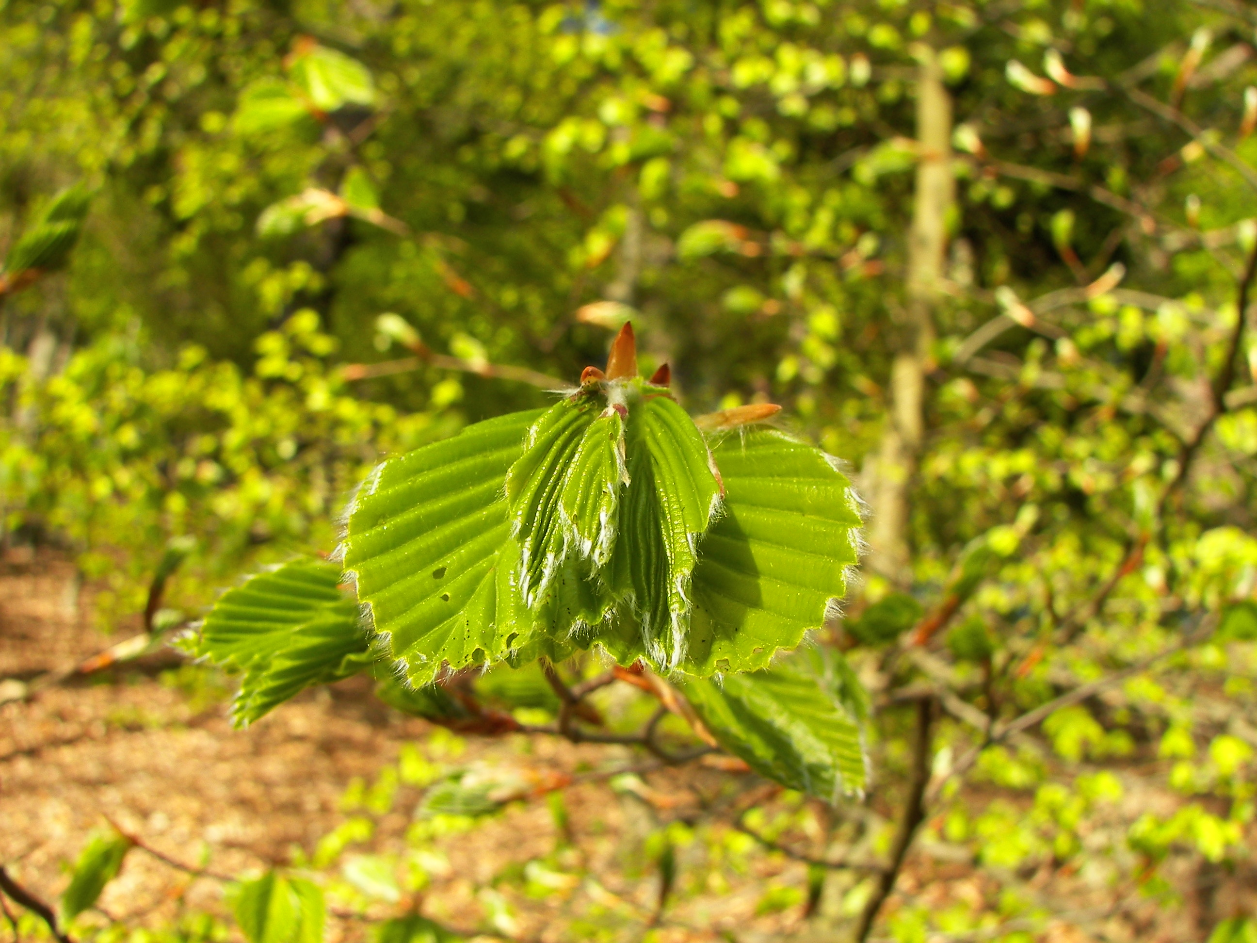 Young leaves of the European Beech (Fagus sylvatica), Location: Lahn Hills near Marburg, Hesse, Germany